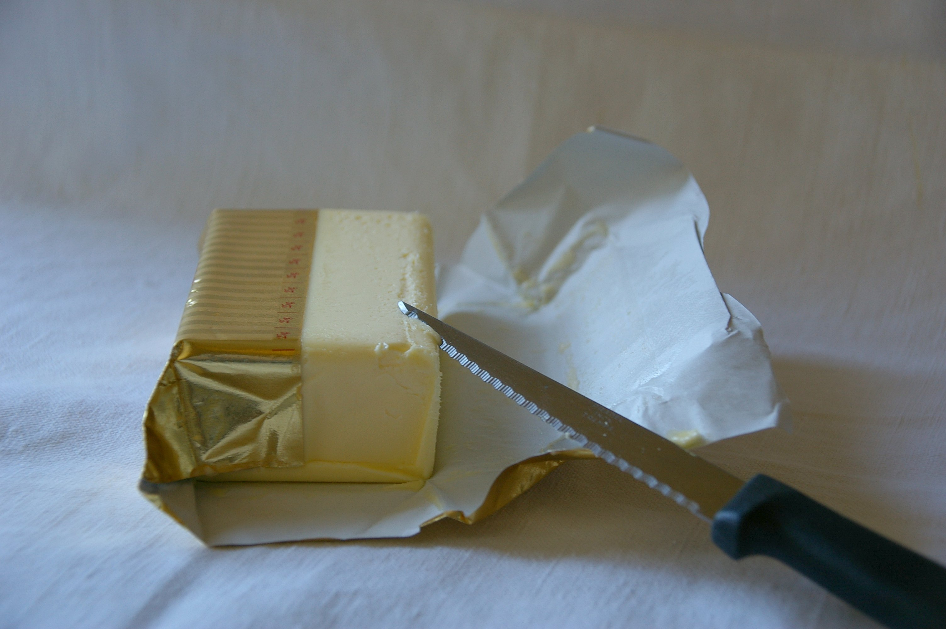 Butter block of a French brand.